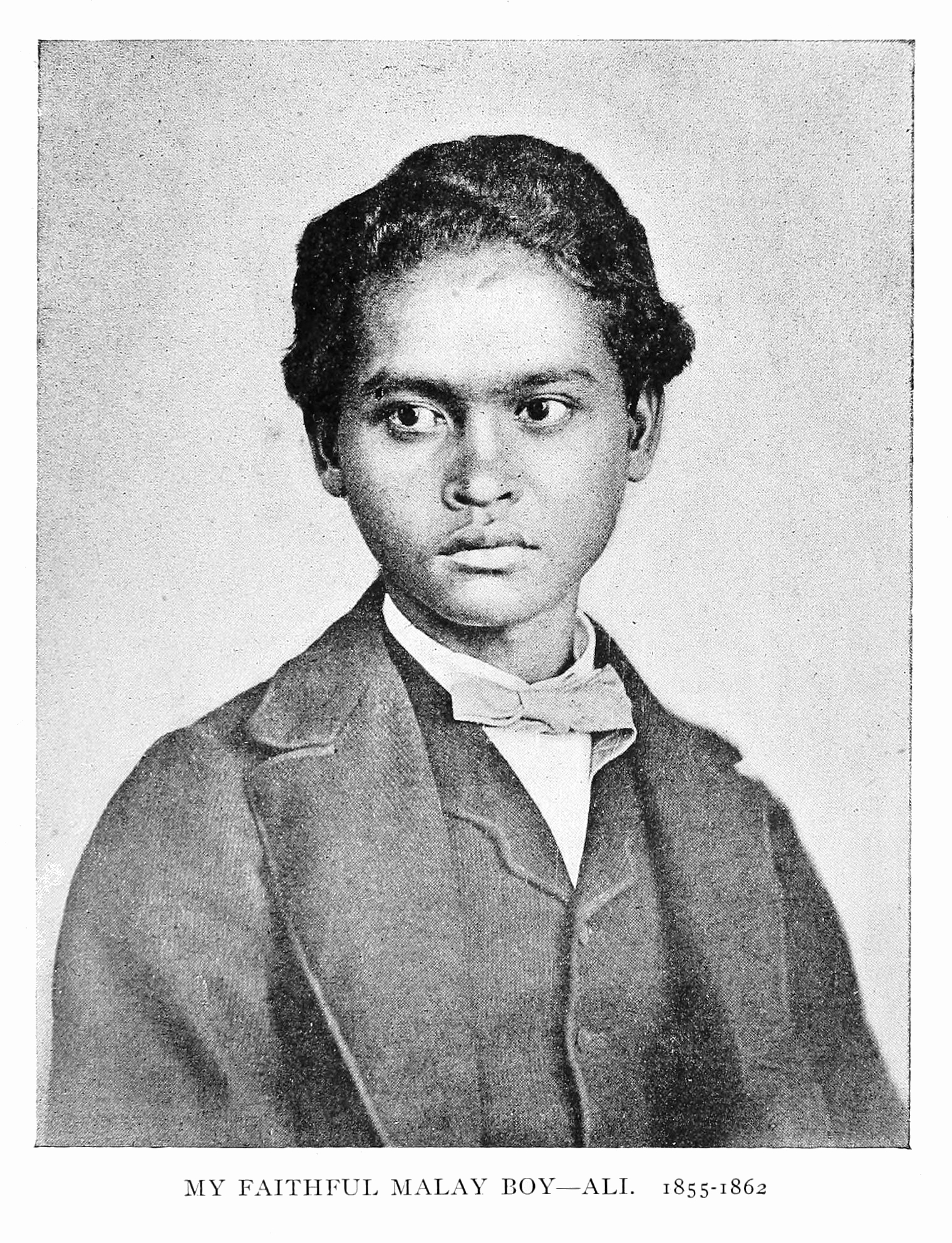 "Ali Wallace" assistant of Alfred Russel WallaceBahasa Melayu: Gambar Ali, pembantu Alfred Russel Wallace, pada tahun 1862 ketika di Singapura